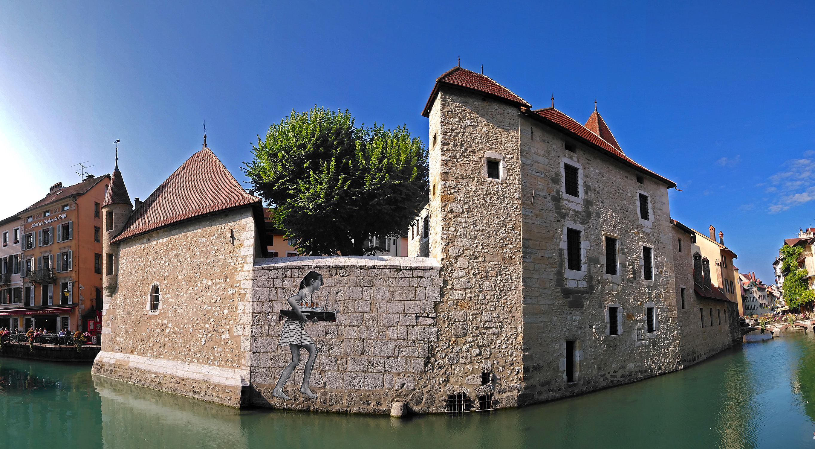 Palais de l'Isle castle in Annecy. .